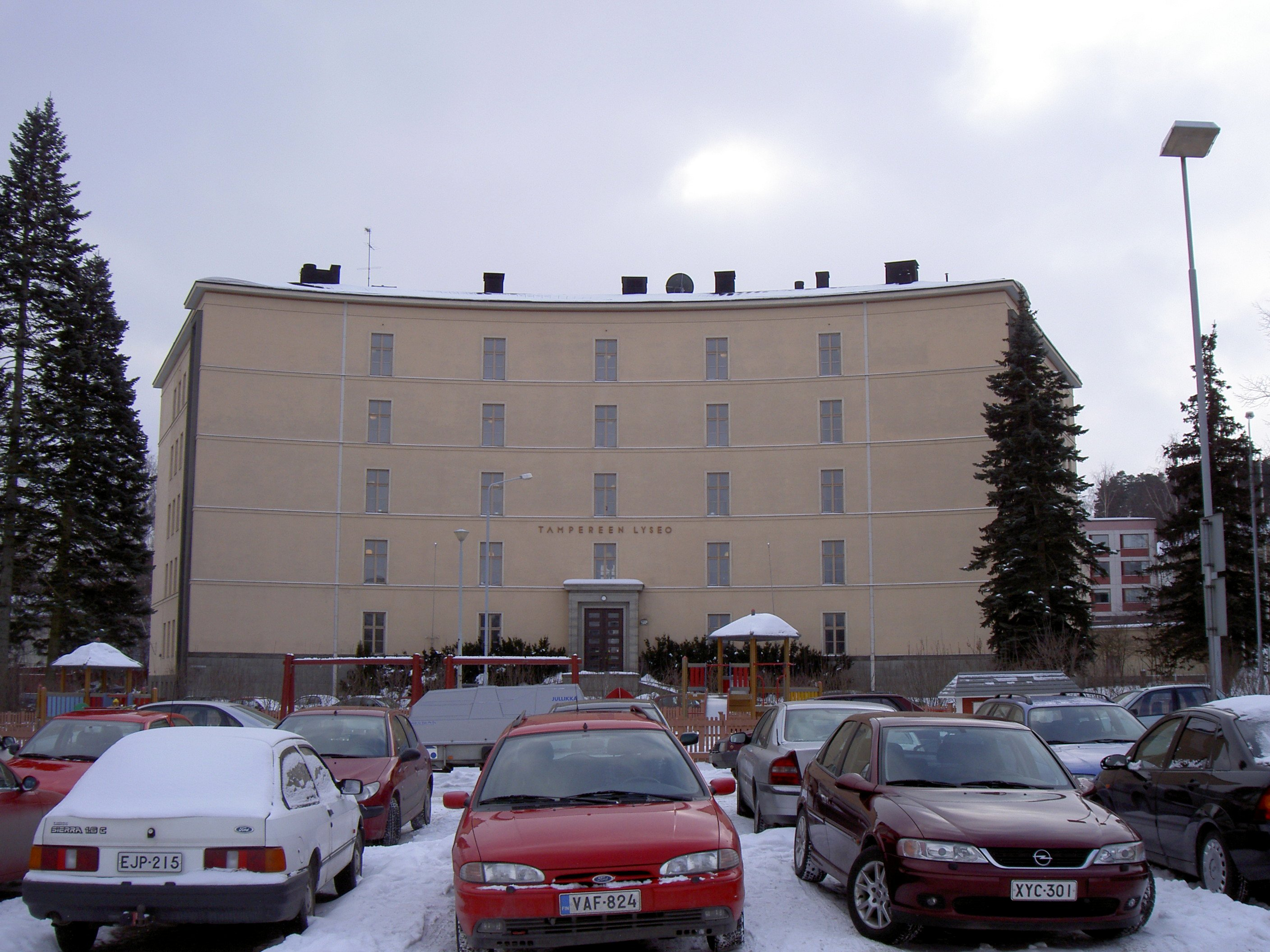 Tampereen lyseo high school in Tampere. The school was designed by Hjalmar Åberg and A.Willberg and built in 1935